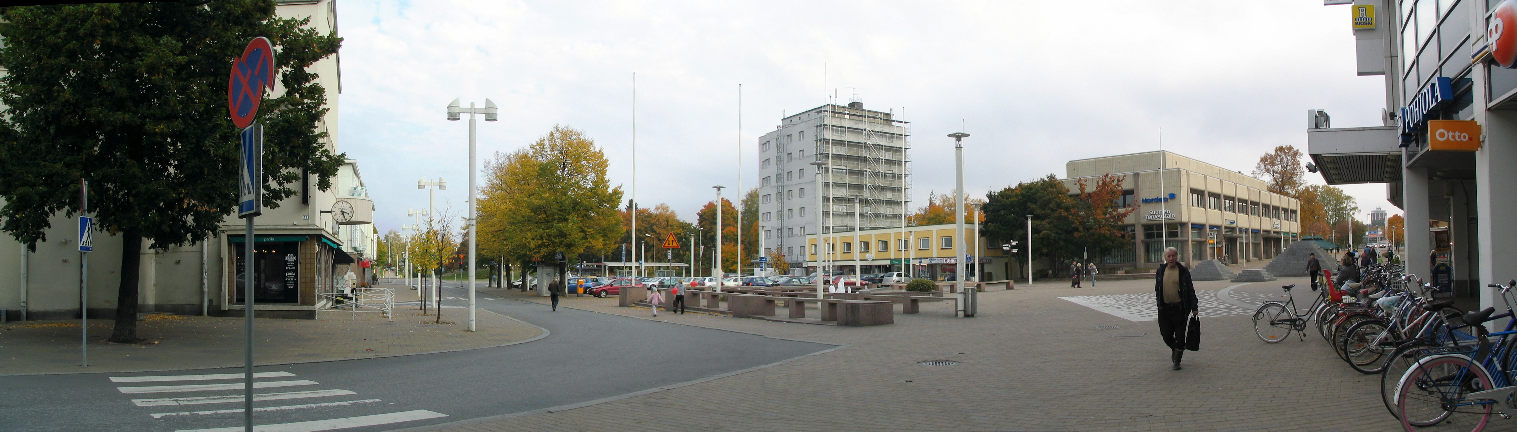 View from Valtakatu, Valkeakoski